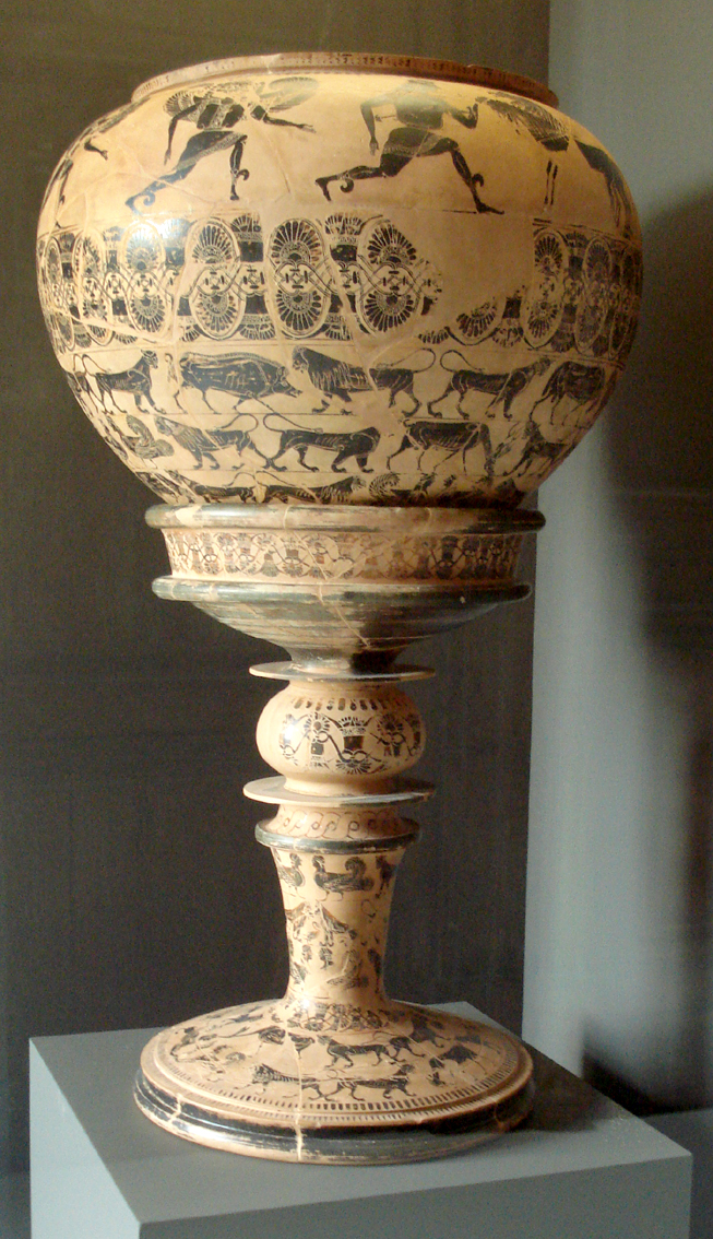 So-called “Gorgon Painter's dinos”, black-figure technique with crimson appreciations (?). From Etruria, ca. 580 BC.